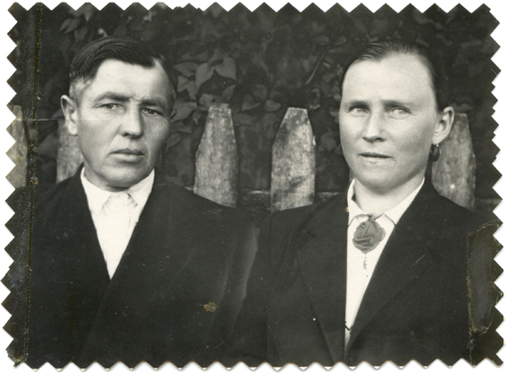 photo portrait of Nikolai and Anna Smolyar